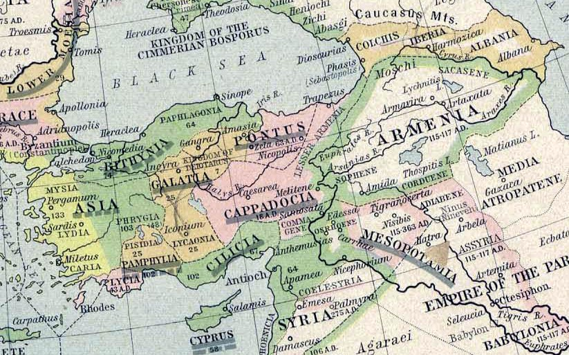 Ancient Anatolia 264 BCE—180 CE. Showing Roman possessions in Asia Minor by: Yellow 133 CE; Green: 44 BCE (Death of Caesar); Brown: 14 CE (Death of Augustus) Pink: 180 CE (Death of Marcus Aurelius). Provincial names underlined in Grey (solid Imperial, dotted Senatorial) .... boundaries prior to Diocletian revisions c. 293 CE. Credits Derived from File:Roman_expansion_264_BC_Shepherd.jpg.